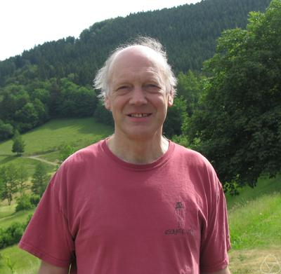 Photo of Geoffrey Grimmett